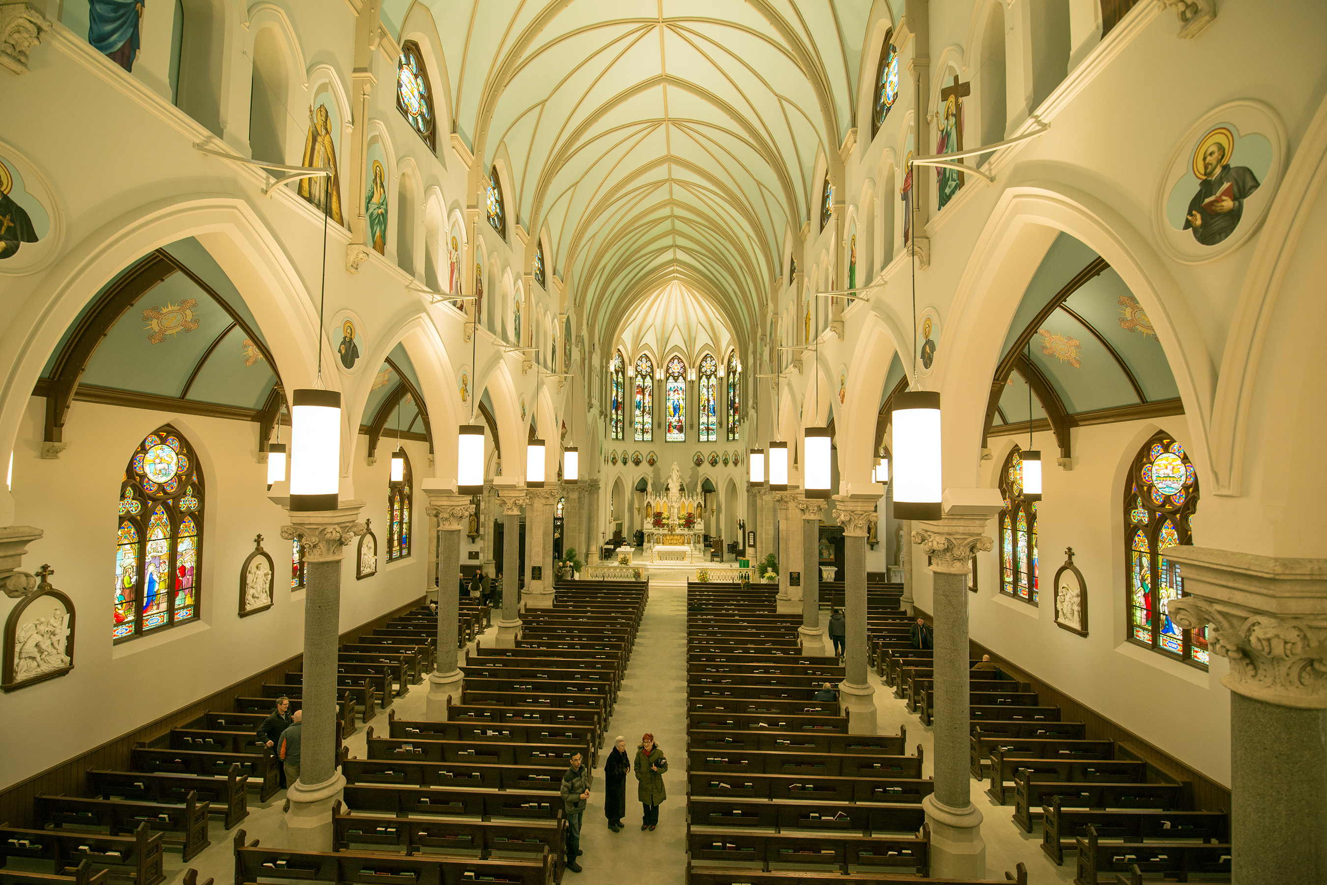 Interior of the Basilica of Our Lady Immaculate, Guelph (2015)